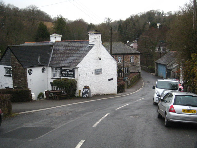 The Manor House Inn in Rilla Mill Rilla Mill is a largish village on the River Lynher.